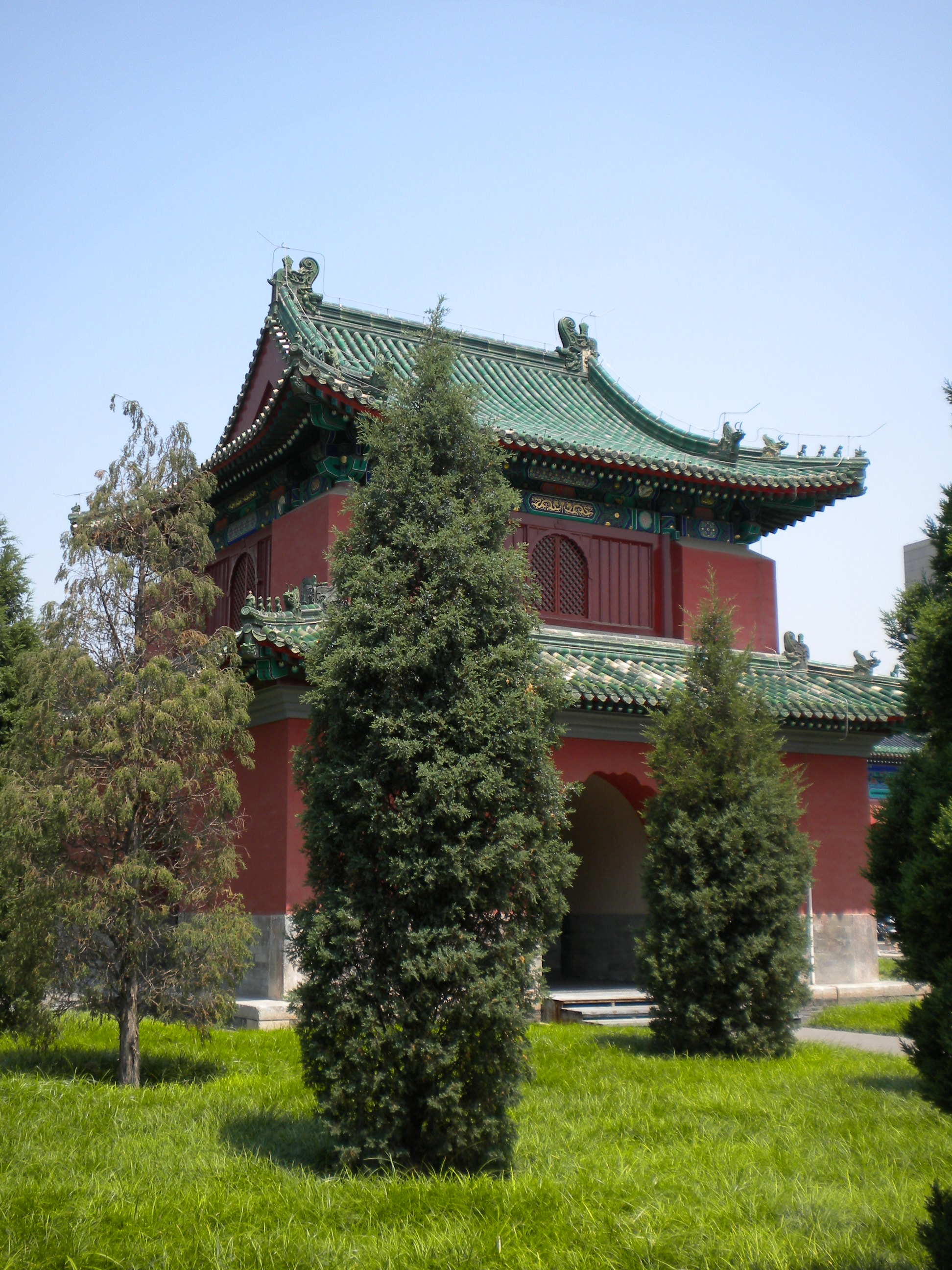 月坛钟楼/Bell Tower (Temple of the Moon)